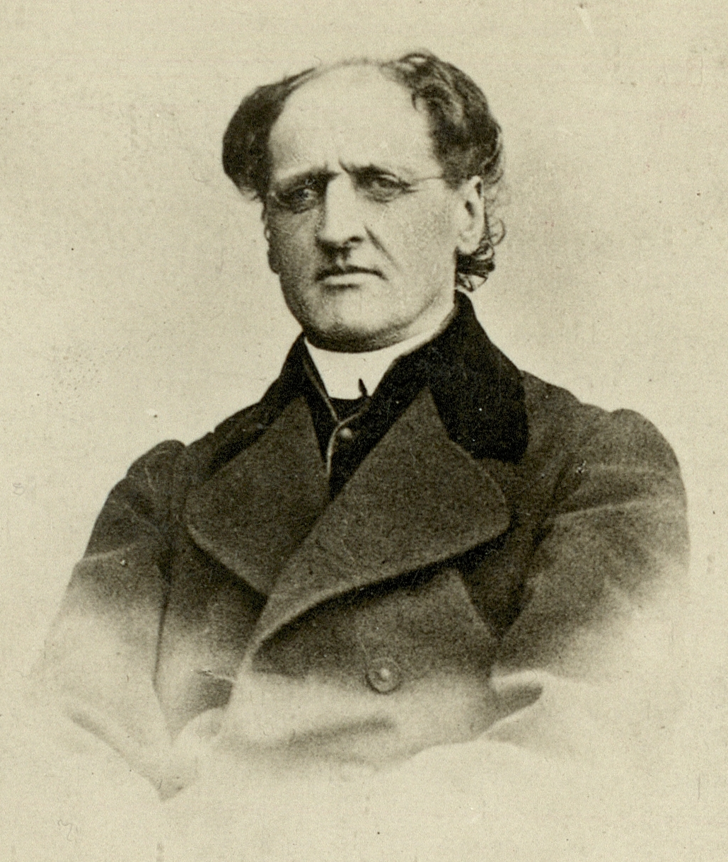 Lambert Einspieler (1840-1906), slovene politician.